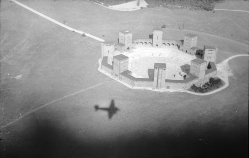 In East Prussia 1944, aerial view of the Monument to the Battle of Tannenberg, from a Junkers Ju 52.